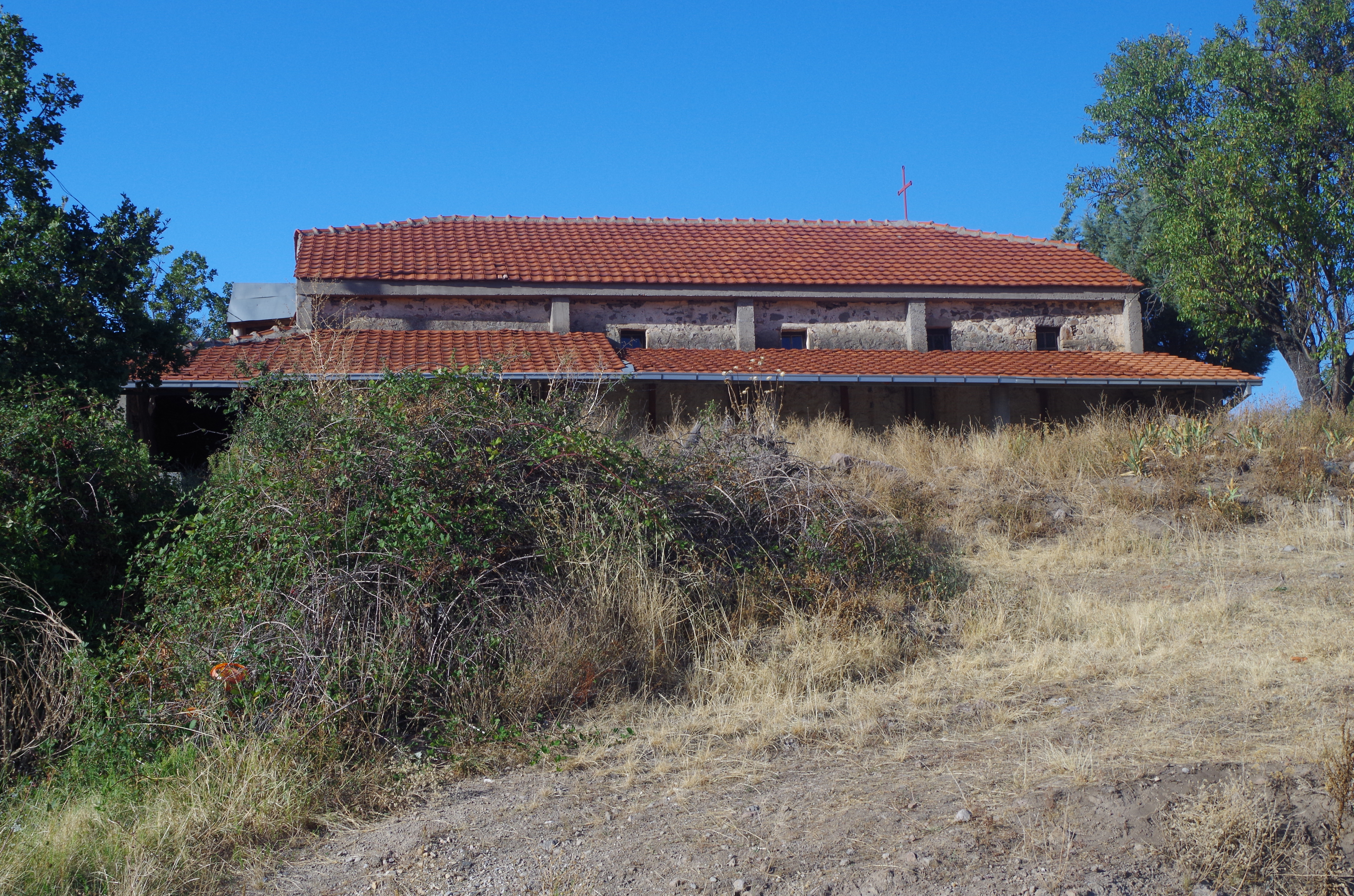 St. Demetrius Church in the village of Stragovo